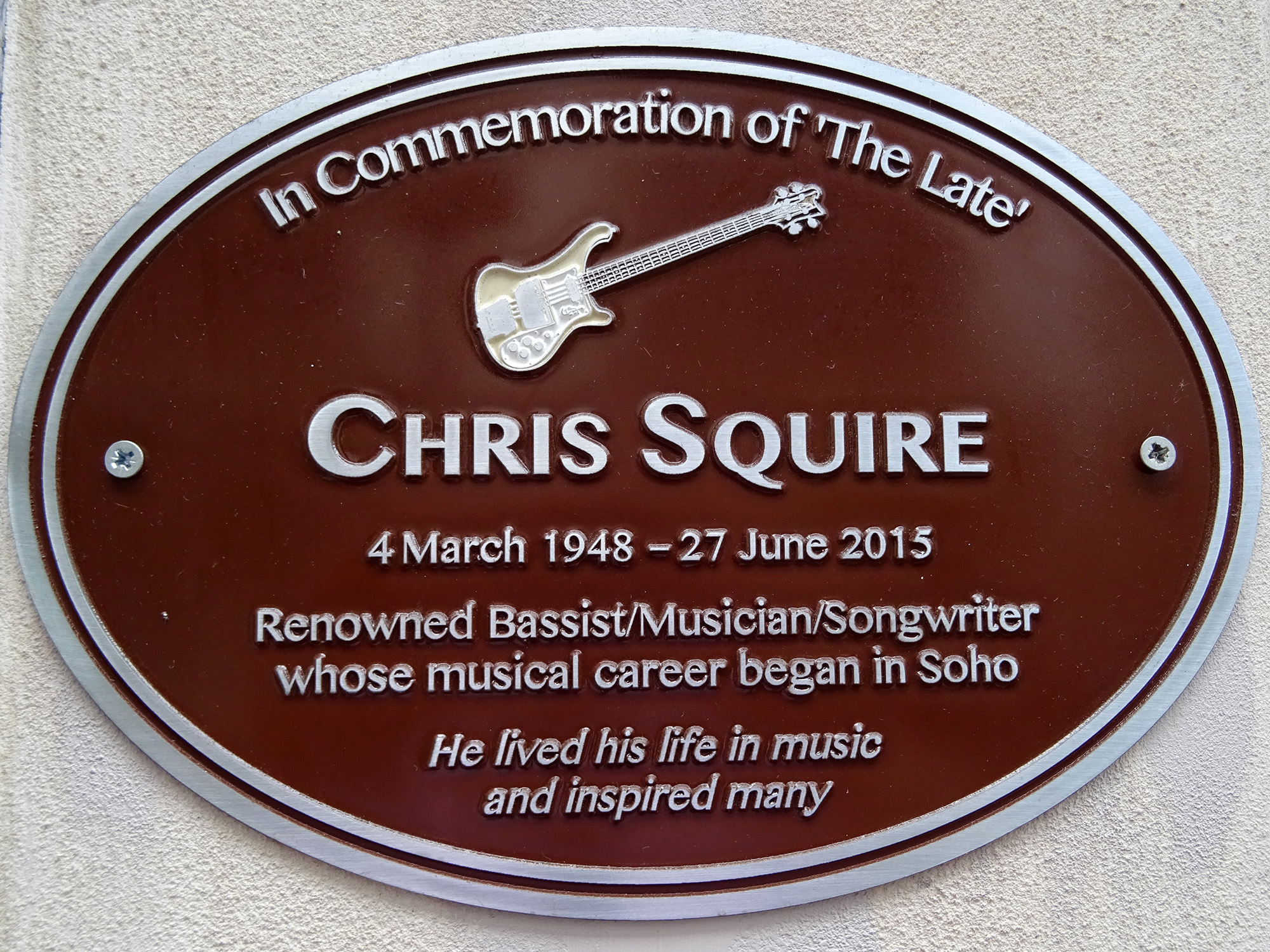 Brown plaque erected in 2015 at 20 Warwick Street, Soho, London W1B 5NF